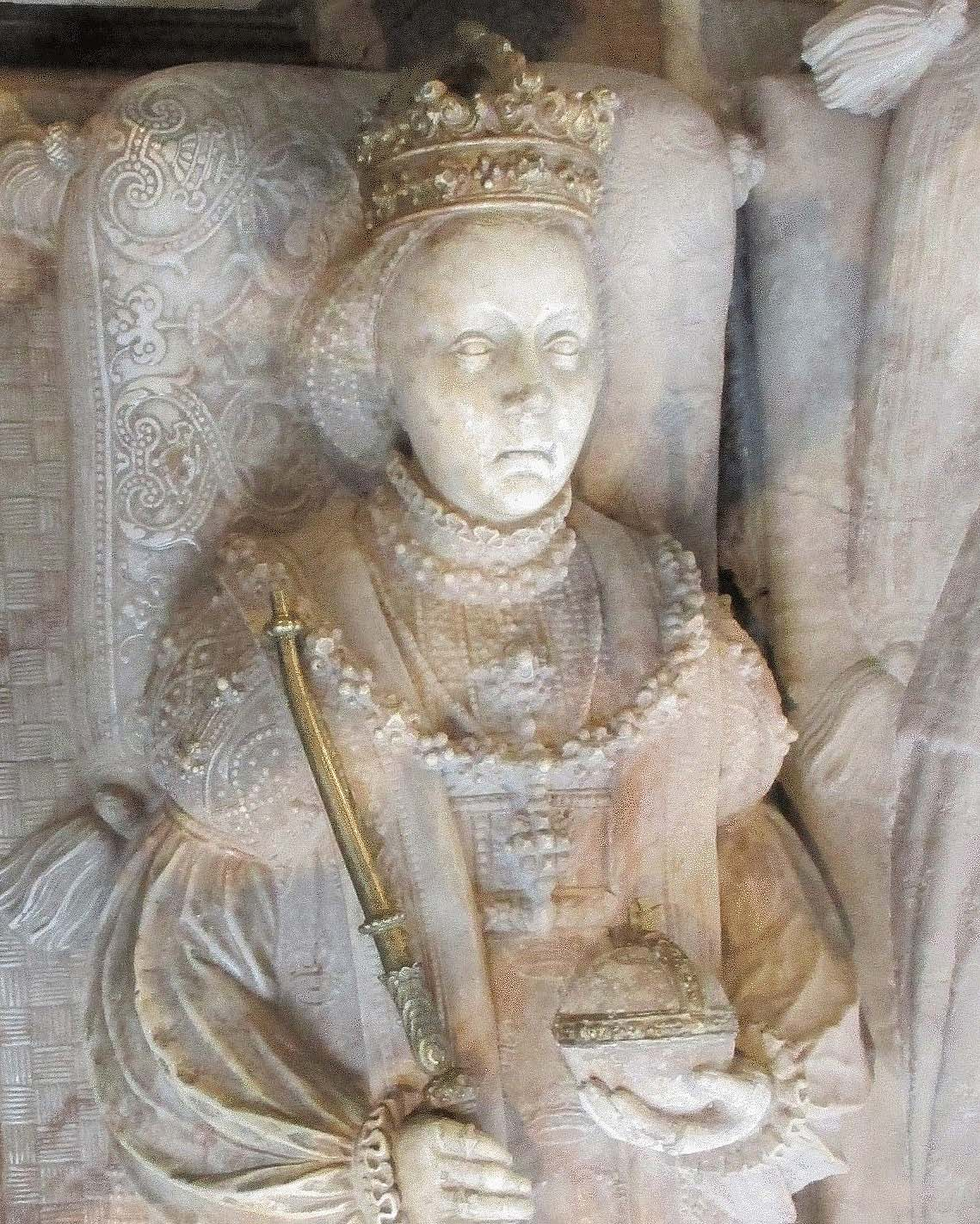 Queen Catherine of Sweden (née of Saxe-Lauenburg, Ascania Dynasty) as depicted on the sarcophagus of her grave sculpted by Willem Boy about 1570Place: Uppsala Domkyrka, Upsala, Sweden